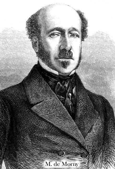 Charles Auguste Louis Joseph, duc de Morny, half-brother of Emperor Napoleon III. (b.1811-d.1865)